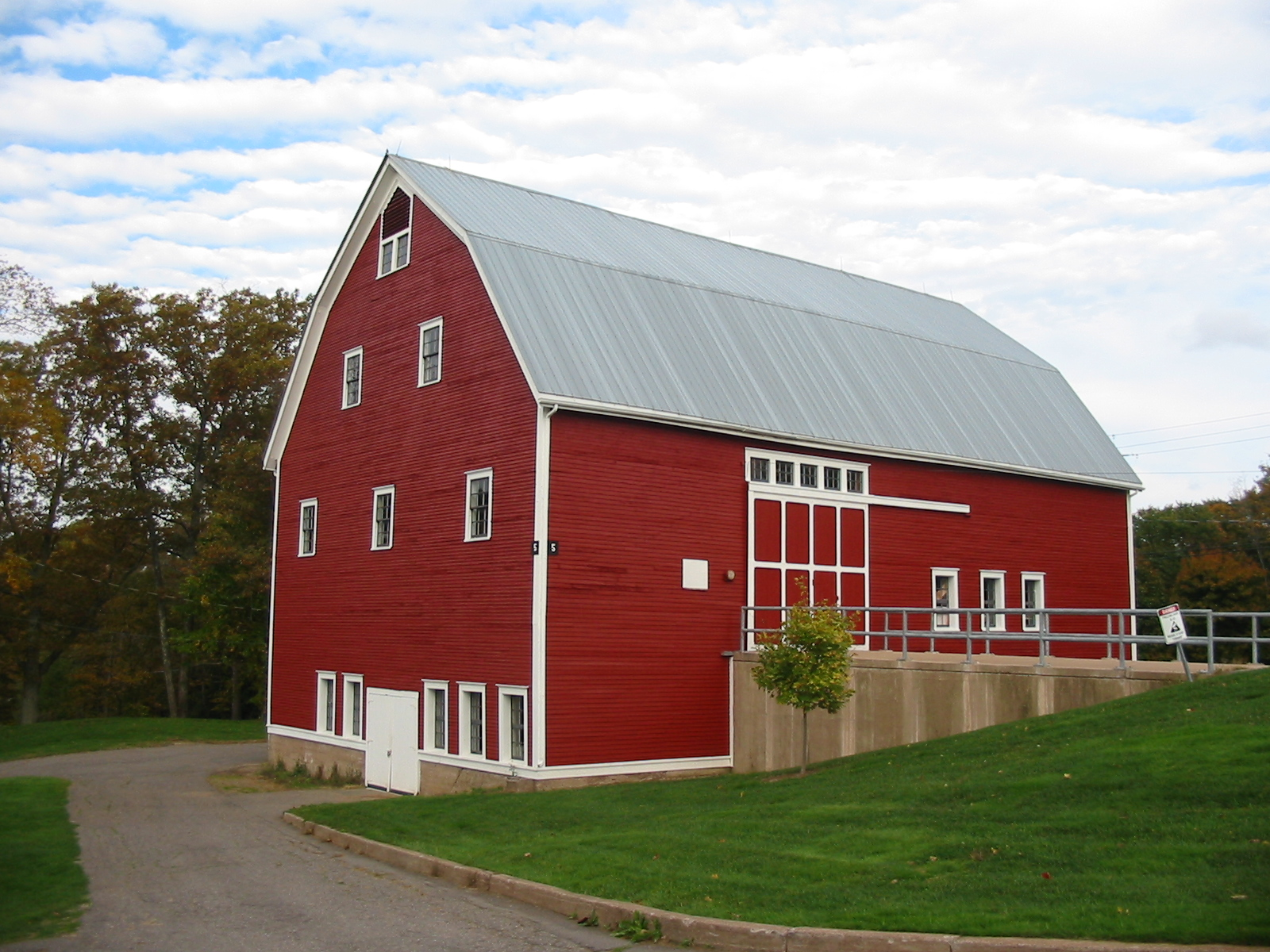 The Main Barn, Atlantic Food and Horticulture Research Centre, Kentville, Nova Scotia, Canada